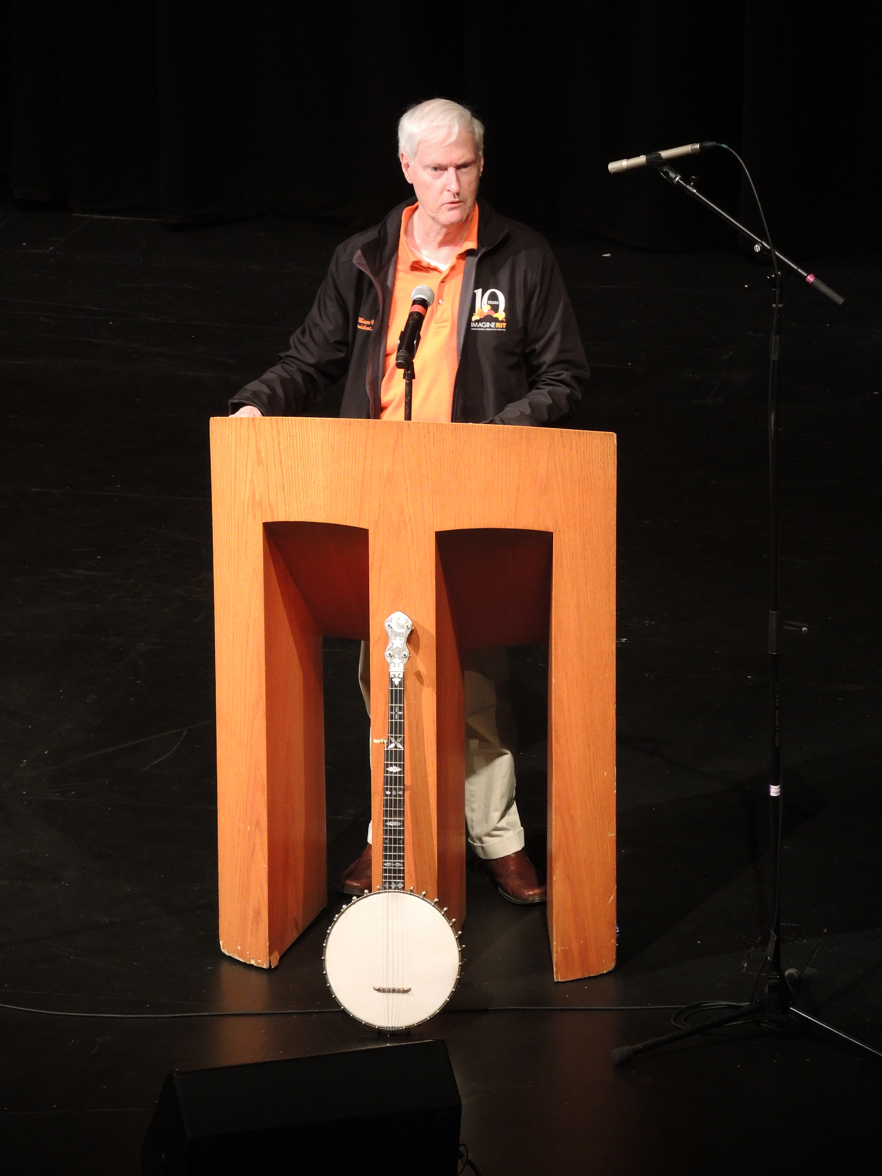 William W. Destler speaking at the opening ceremony in Ingle Auditorium at Imagine RIT 2017.